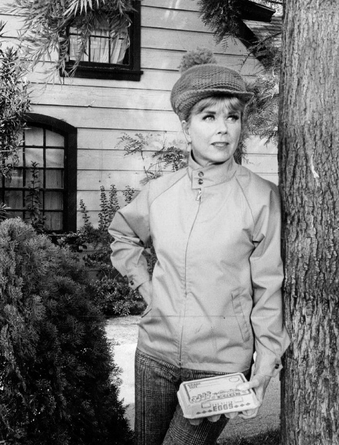 Photo of Doris day from her television program The Doris Day Show.